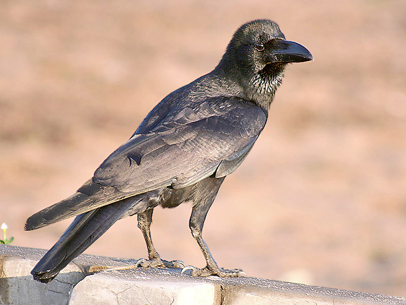 Indian Jungle Crow (Corvus culminatus) in Puri, Orissa, India.